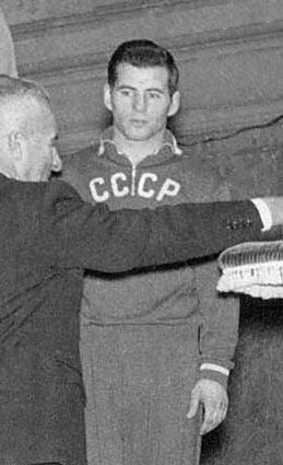 Freestyle Wrestling at the 1956 Summer Olympics 67 kg podium